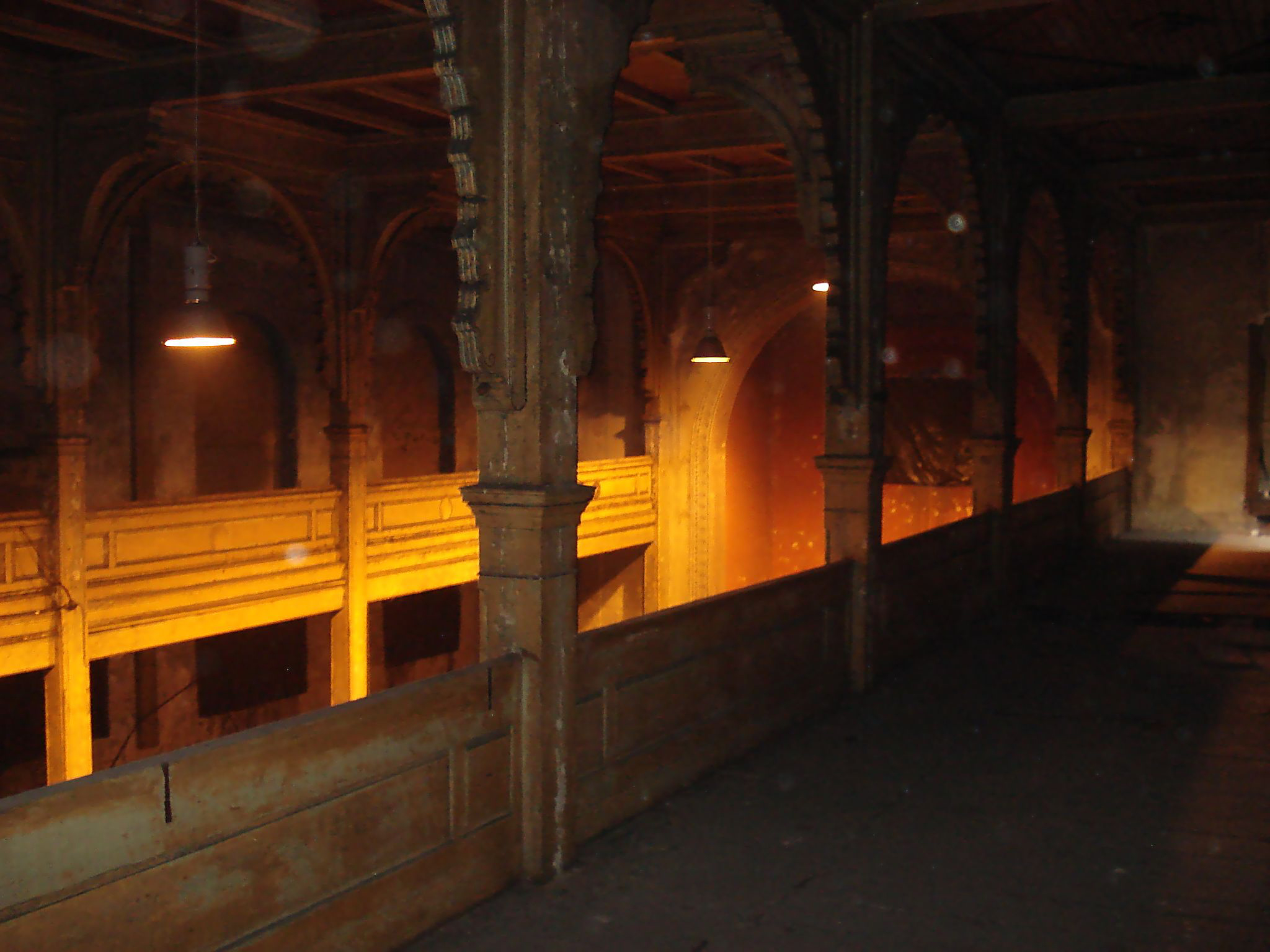 Ostrów Wielkopolski. The interior before renovation. The gallery.